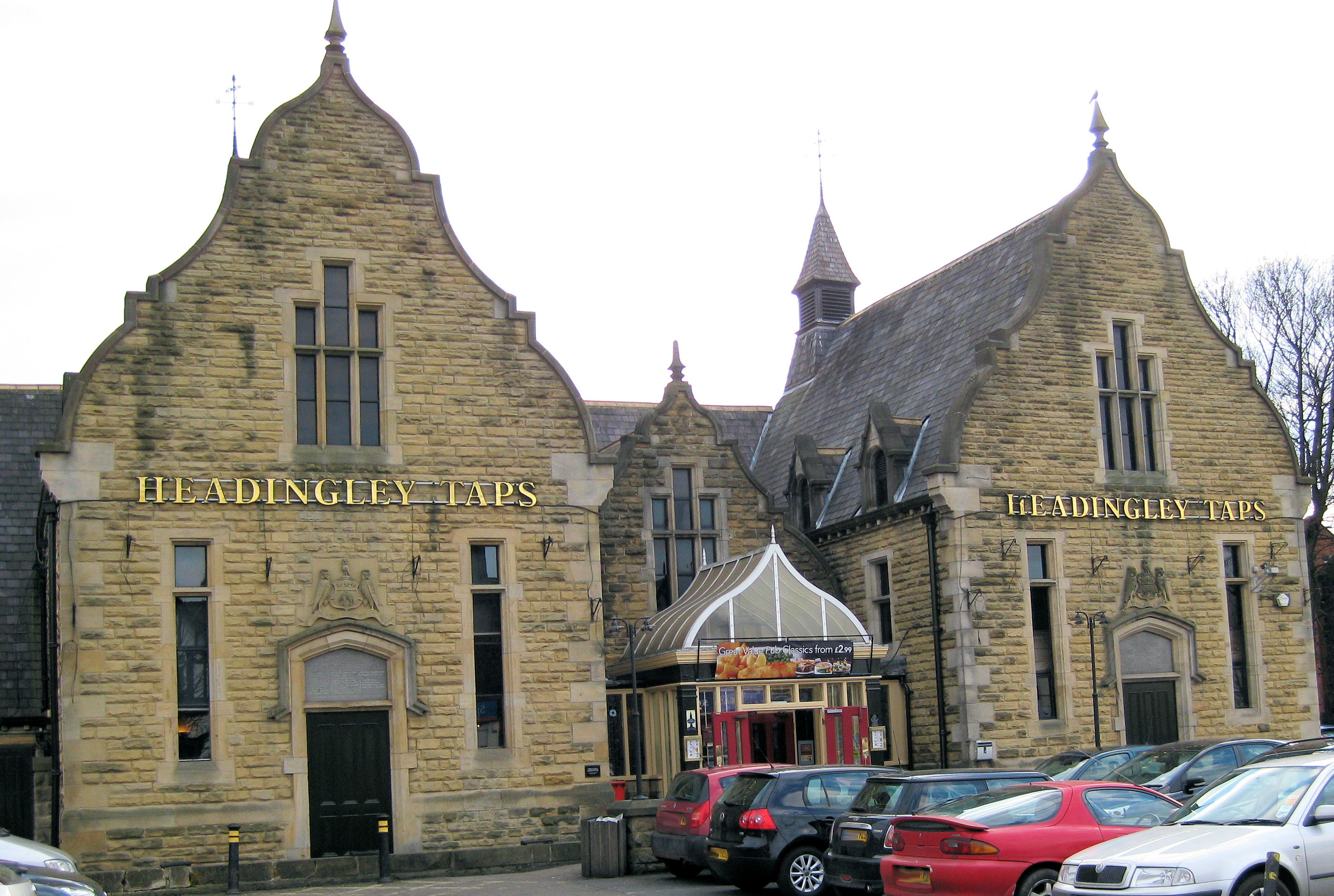 Headingley Taps, (public house) North Lane, Headingley, Leeds, LS6 3HG, UK